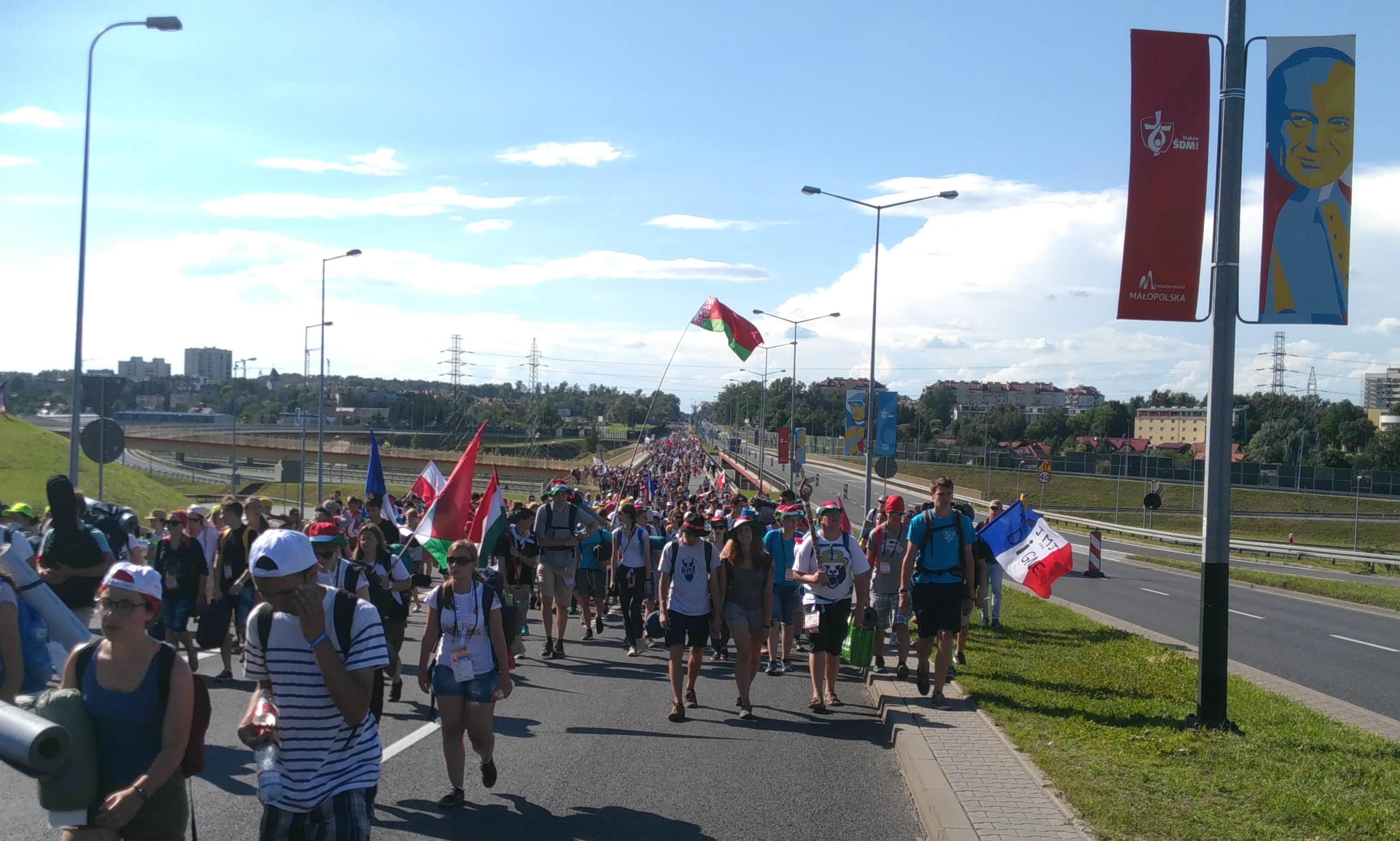 /wiki/Category:Hungarians_on_the_WYD